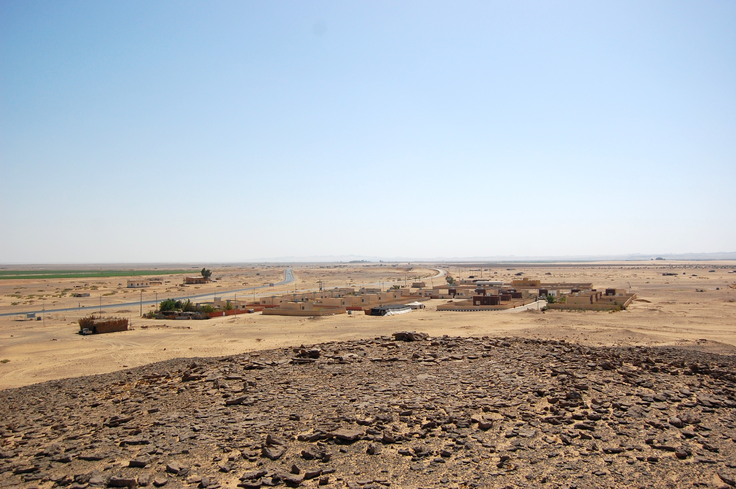 A view looking south of part of Mudawwara village with the Hejaz railway station building in the distance